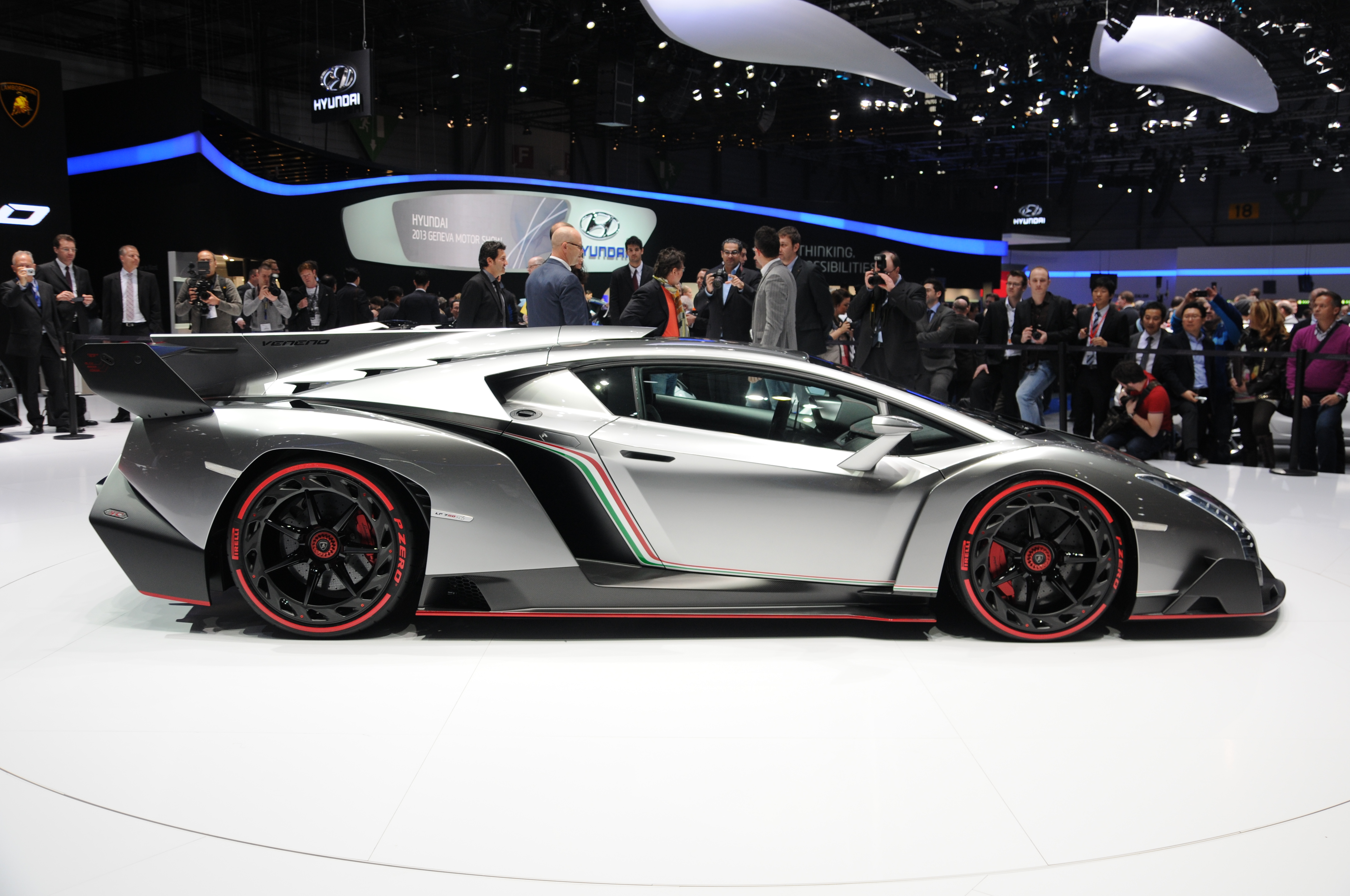 Geneva Motor Show 2013 (photos taken on the first press day)